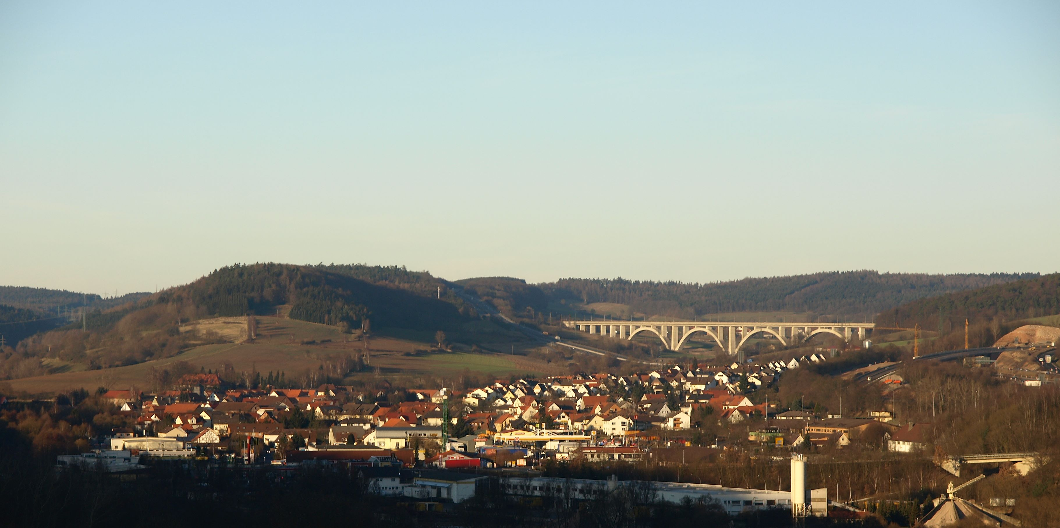 Kirchheim in Hesse, Germany with Autobahn 7 and railway bridge of the High-speed railway Hannover–Würzburg